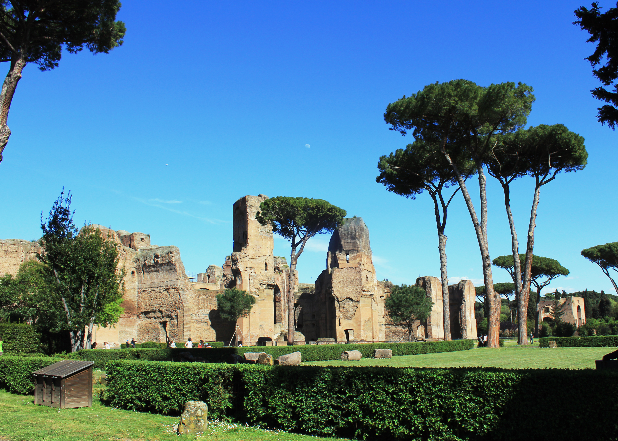 Ruins of the Baths of Caracalla, Rome, Italy